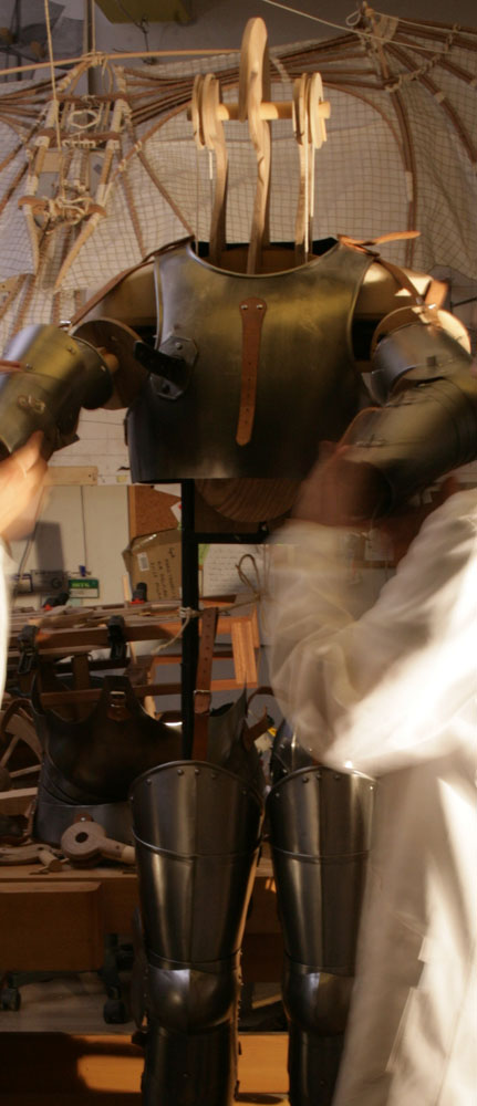 Building the robot of Leonardo da Vinci in the laboratories of Leonardo3 Milan, Italy. 2007. The robot will be used in the exhibitions of Mexico, Milan, San Francisco and New York.